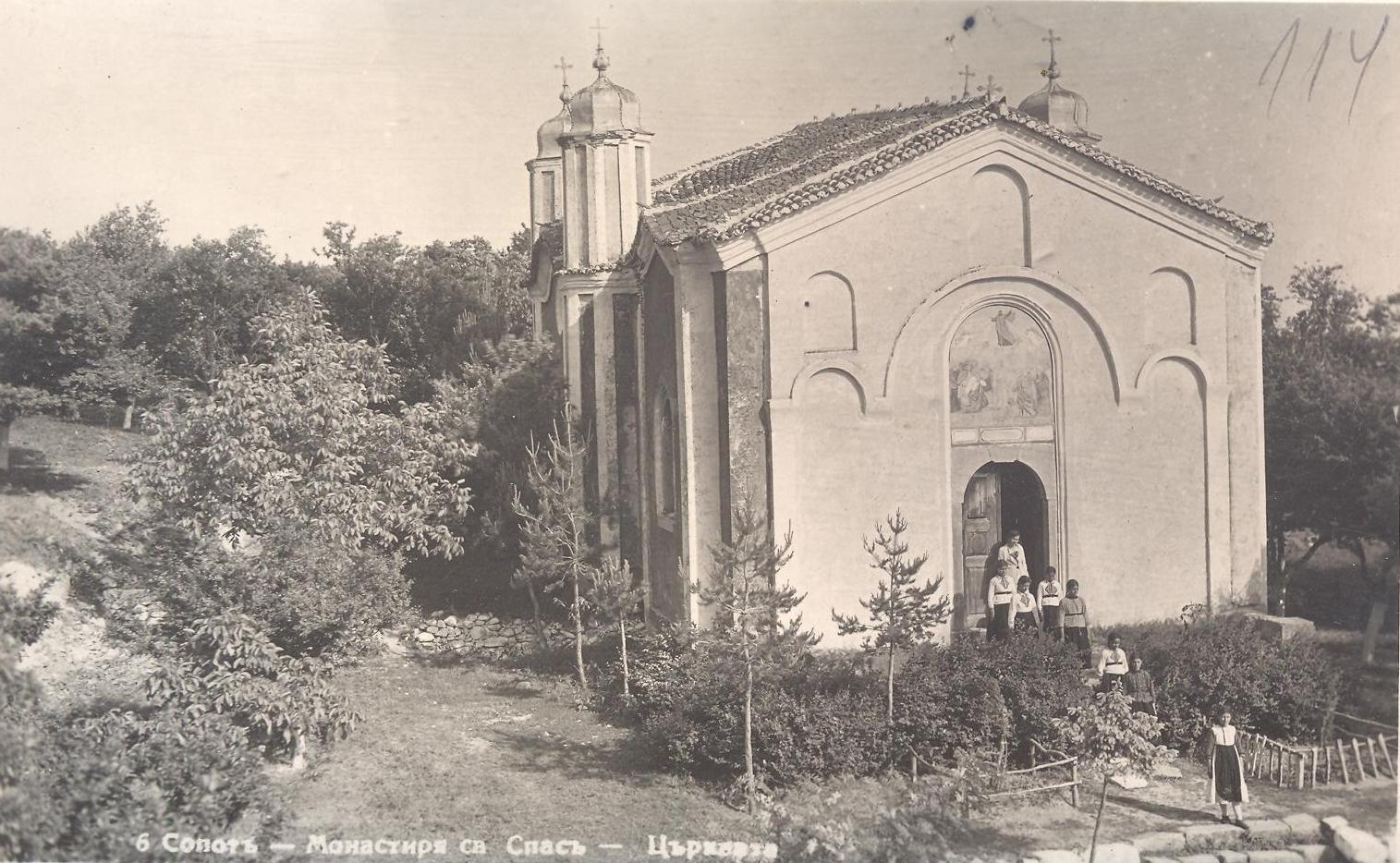 Church of the Ascension, Sopot, Bulgaria.